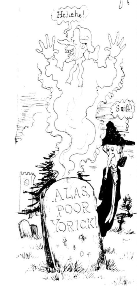 An original pen and ink drawing from page 21 of Martin Rowson's graphic novel reworking of The Life and Opinions of Tristram Shandy, Gentleman. The page is Rowson's version of the 'black page' and this frame shows a gravestone marked ALAS POOR YORICK with a laughing ghost emerging and Shandy looking on in surprise.